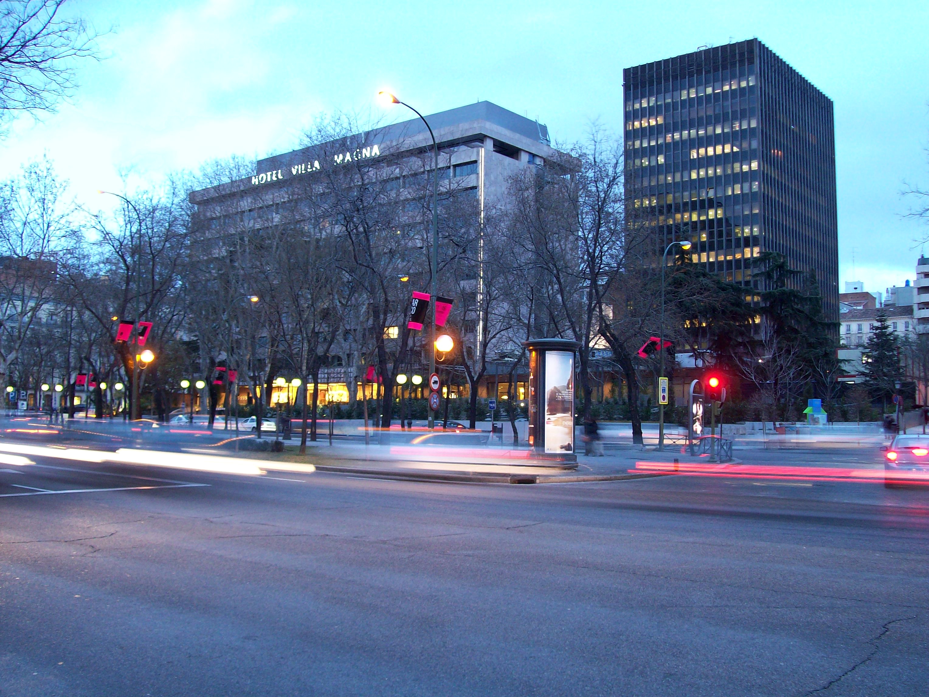 View, at dusk, of Paseo de la Castellana (avenue) in Madrid (Spain). At the left, Villa Magna Hotel (# 22). Right, Torre Serrano (office building).